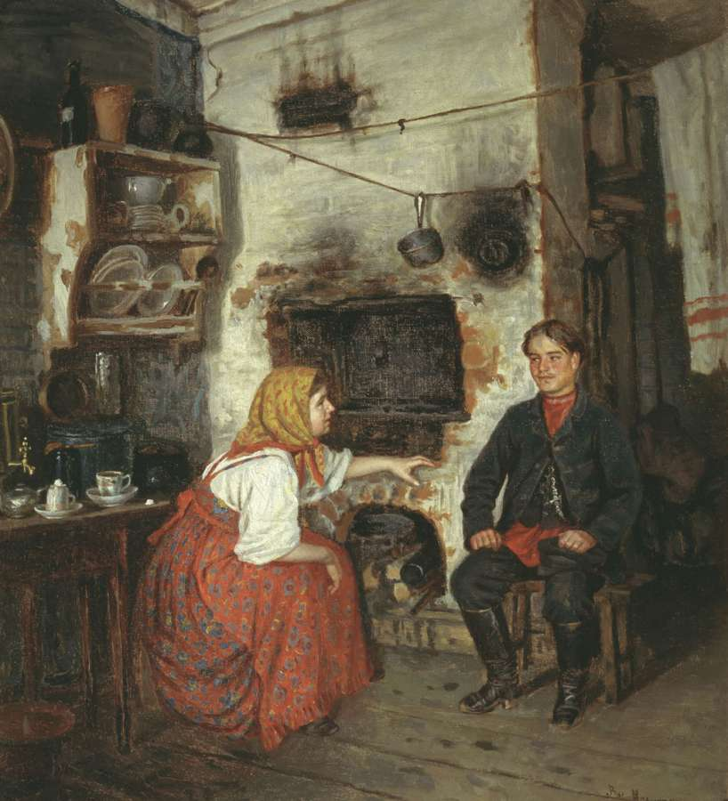 Vasily Malyshev. Kitchen. 19th Century